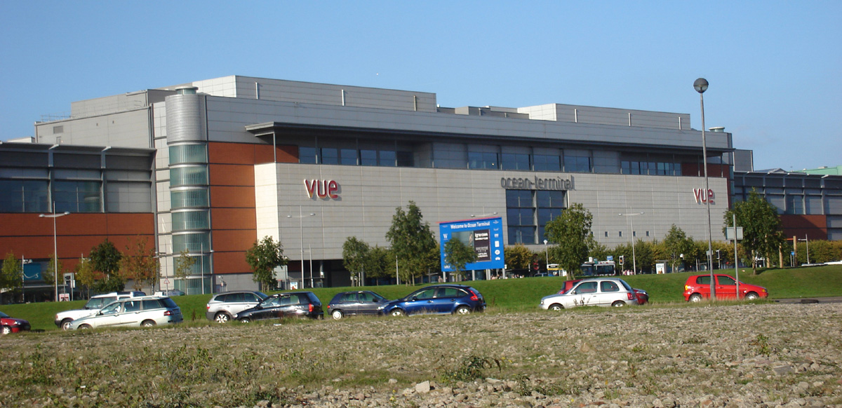 Ocean Terminal shopping centre, Leith, Edinburgh, Scotland